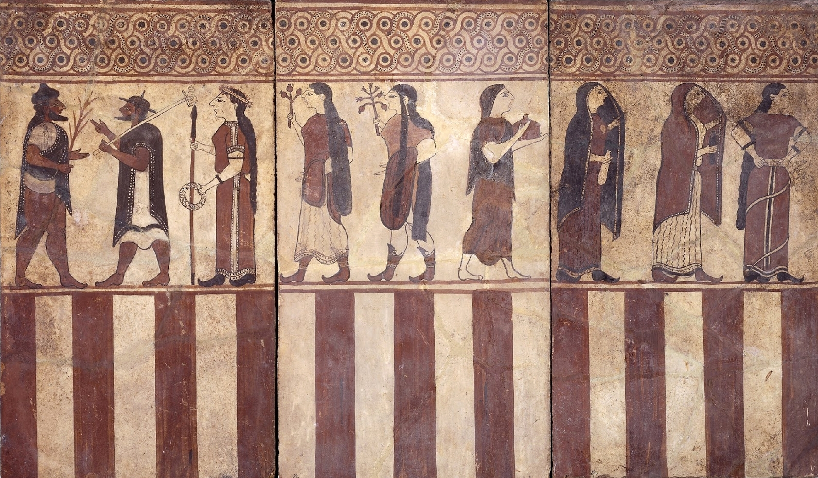 Etruscan Boccanera Plaques from Cerveteri with the judgment of Paris and the toilette of Helen